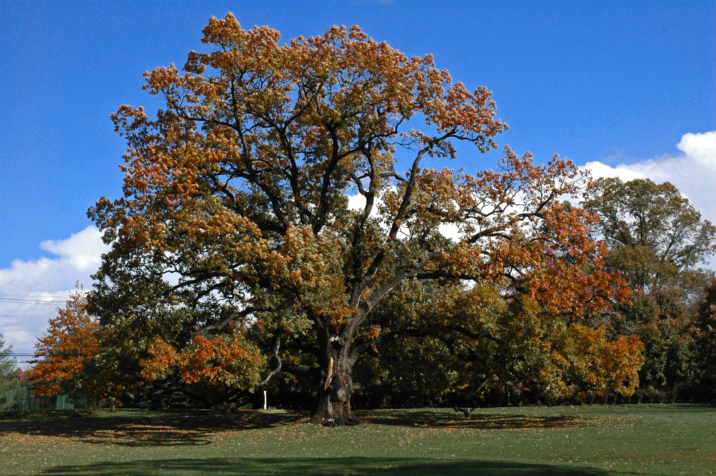 Old oak tree in Florham Park, NJ on the property of Brooklake Country Club. Oak tree is thought to be over 200 years old. Photography by Leif Knutsen.